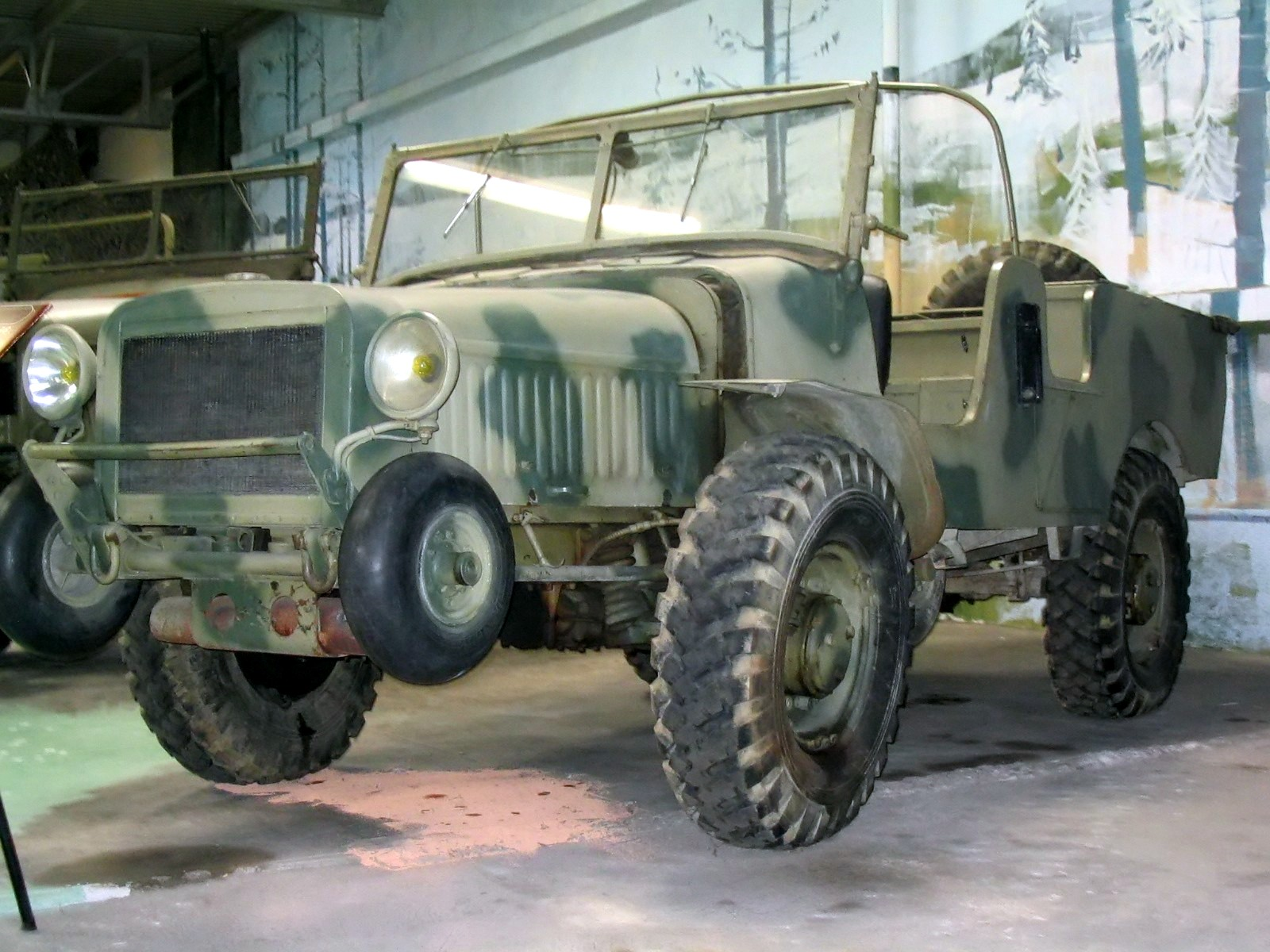 The Laffly V15 at Saumur museum